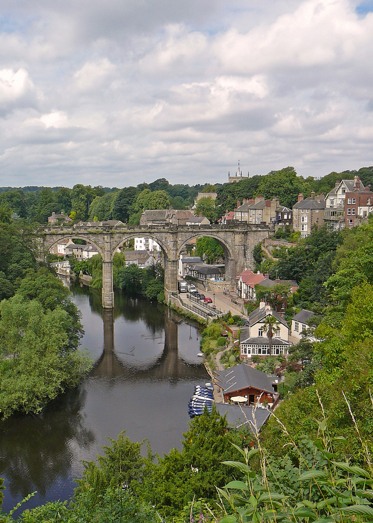 A famous view of the Knaresborough Viaduct across the River Nidd. The Church of St John the Baptist can be seen in the background, obscured by trees. This photo is taken from the hill after which the town is named, the site of the ruins of Knaresborough Castle (borough derives from an Old English word meaning ‘fortress’).